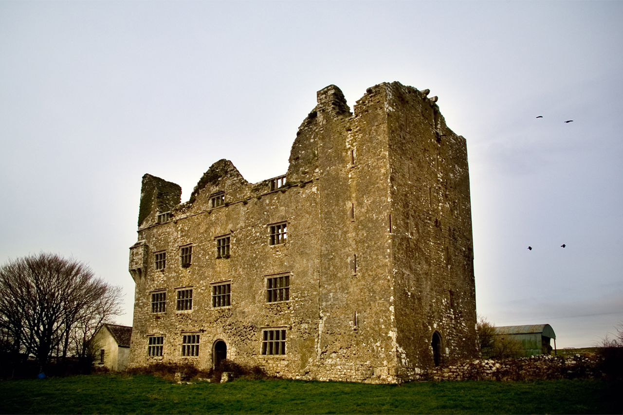 Lemaneagh Castle